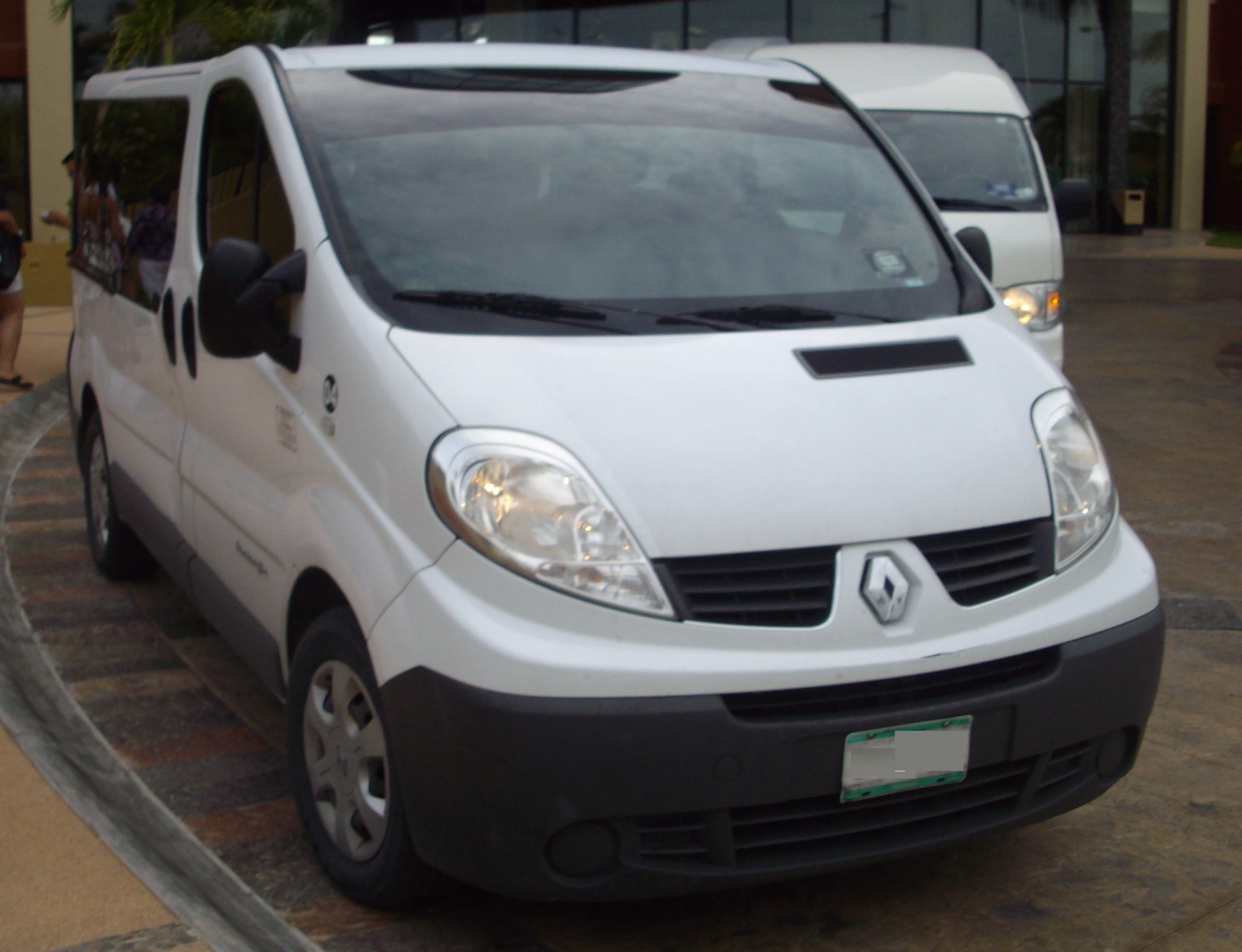 Renault Trafic photographed in Cancun, Quintana Roo, Mexico.